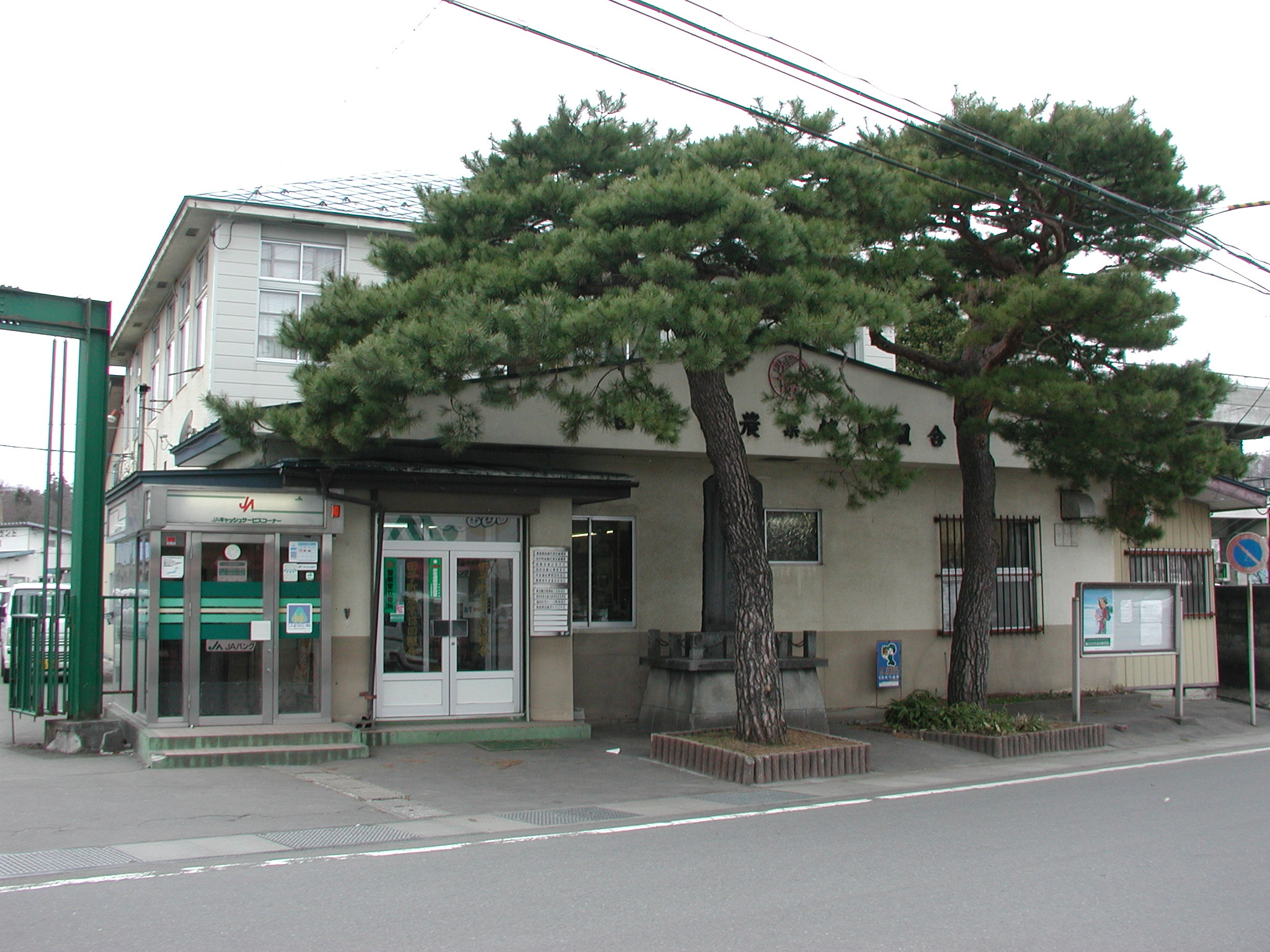 Takkomachi Agricultural Cooperatives Head Shop